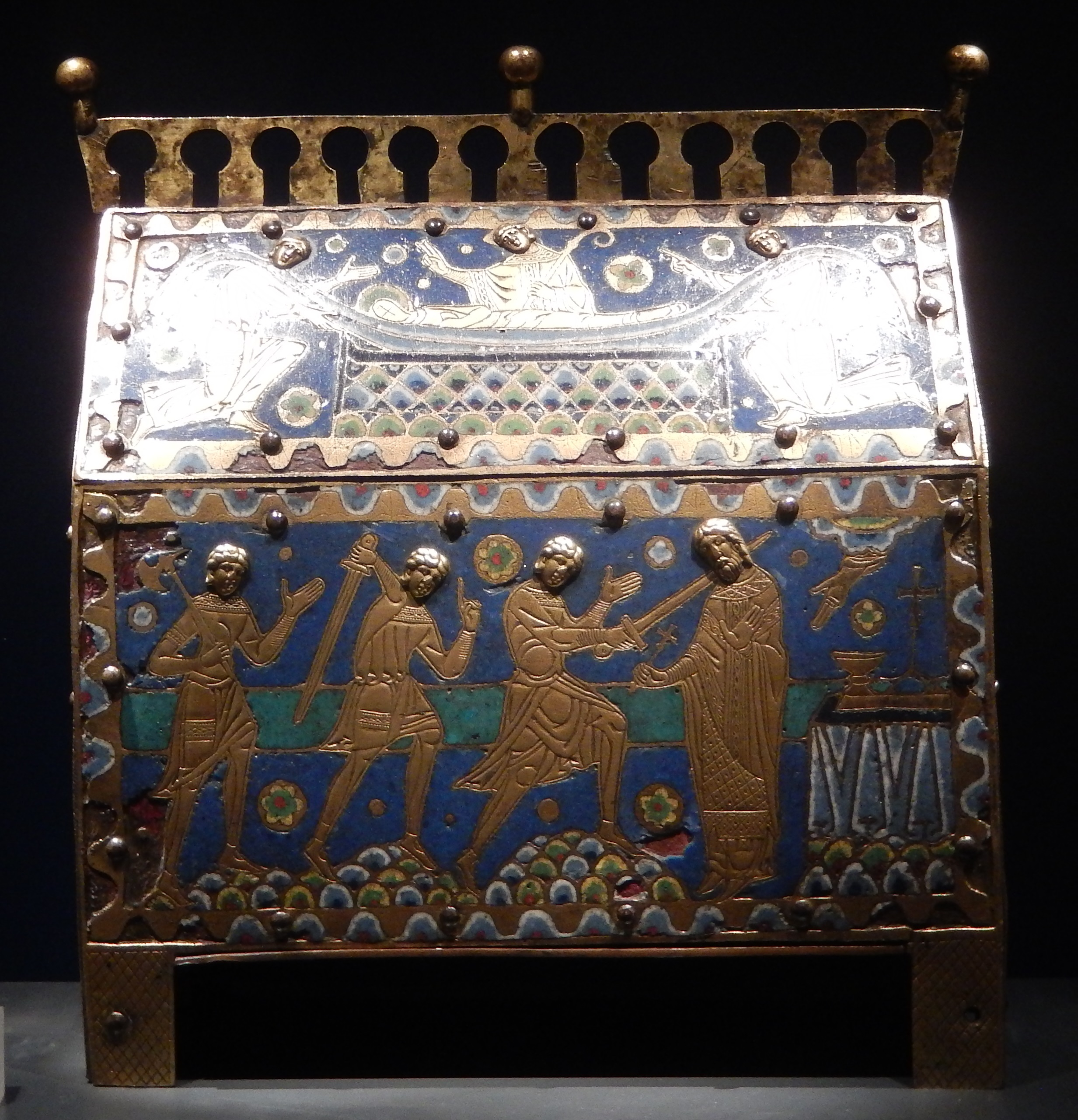 Reliquary casket of Saint Thomas Becket, depicting his murder. Gilt copper alloy, champlevé enamel and wood. Circa 1200, Limoges, France. AN2008.36.